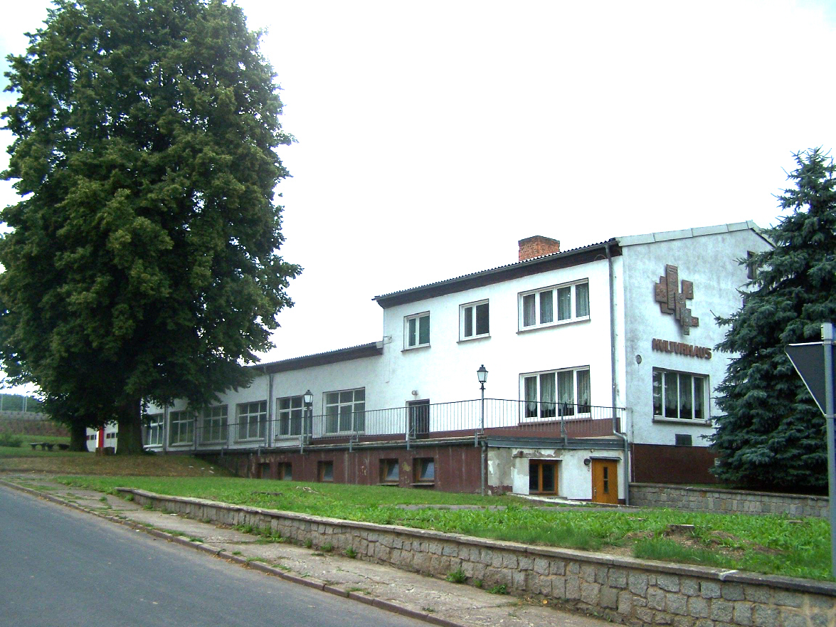 The village hall in Eckardtshausen.